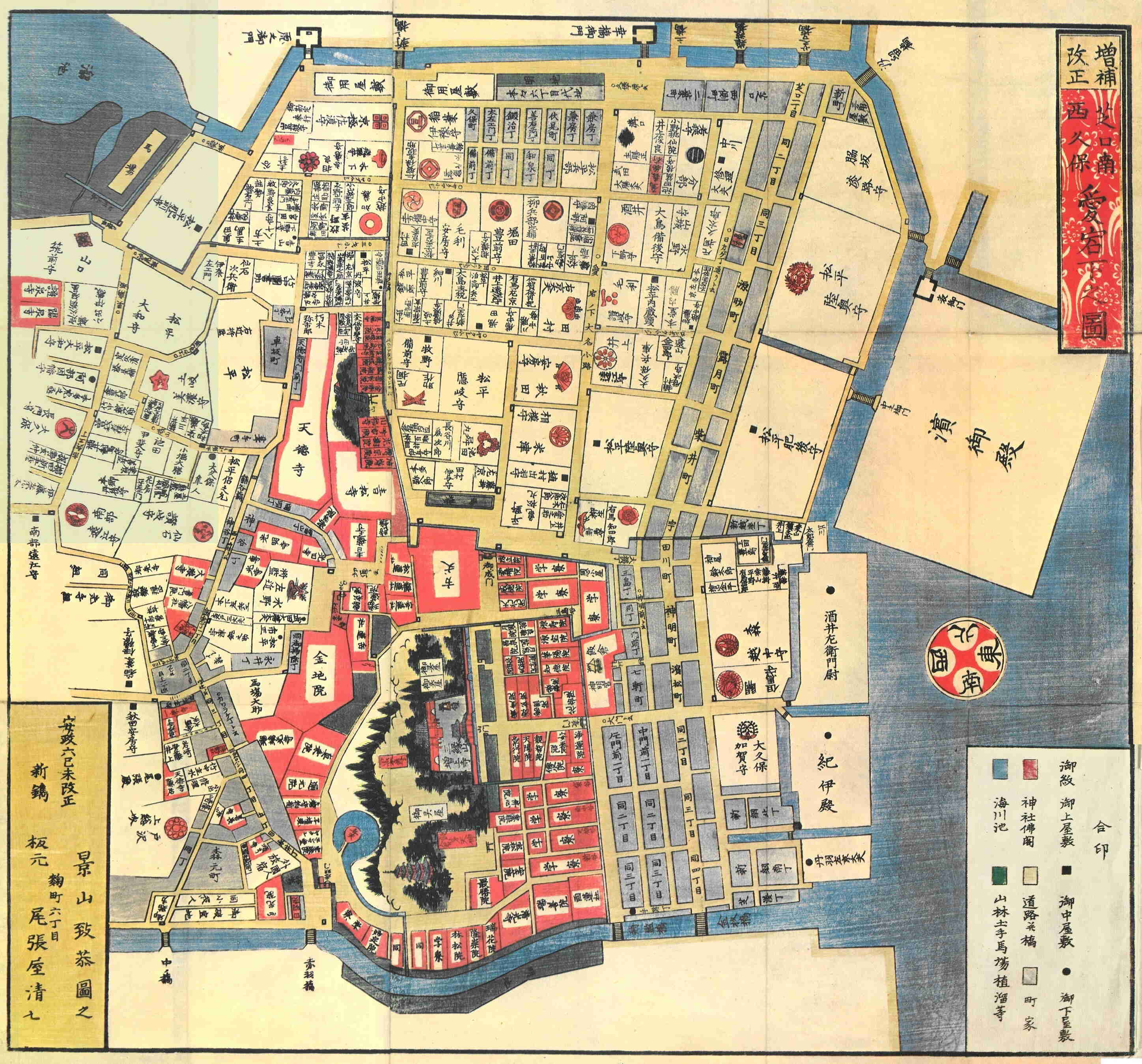 Old borough map of Edo